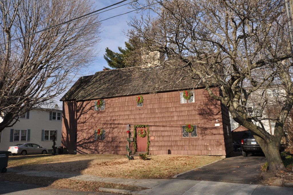 The John Wheeler House, a 17th or early 18th century house on Brewster Street, in the Black Rock Historic District, Bridgeport, Connecticut.